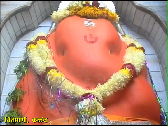 My own work, anyone can use, modify.